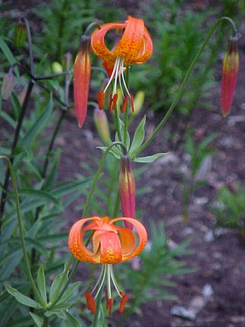 Lilium pardalinum This work is free and may be used by anyone for any purpose. If you wish to use this content, you do not need to request permission as long as you follow any licensing requirements mentioned on this page.